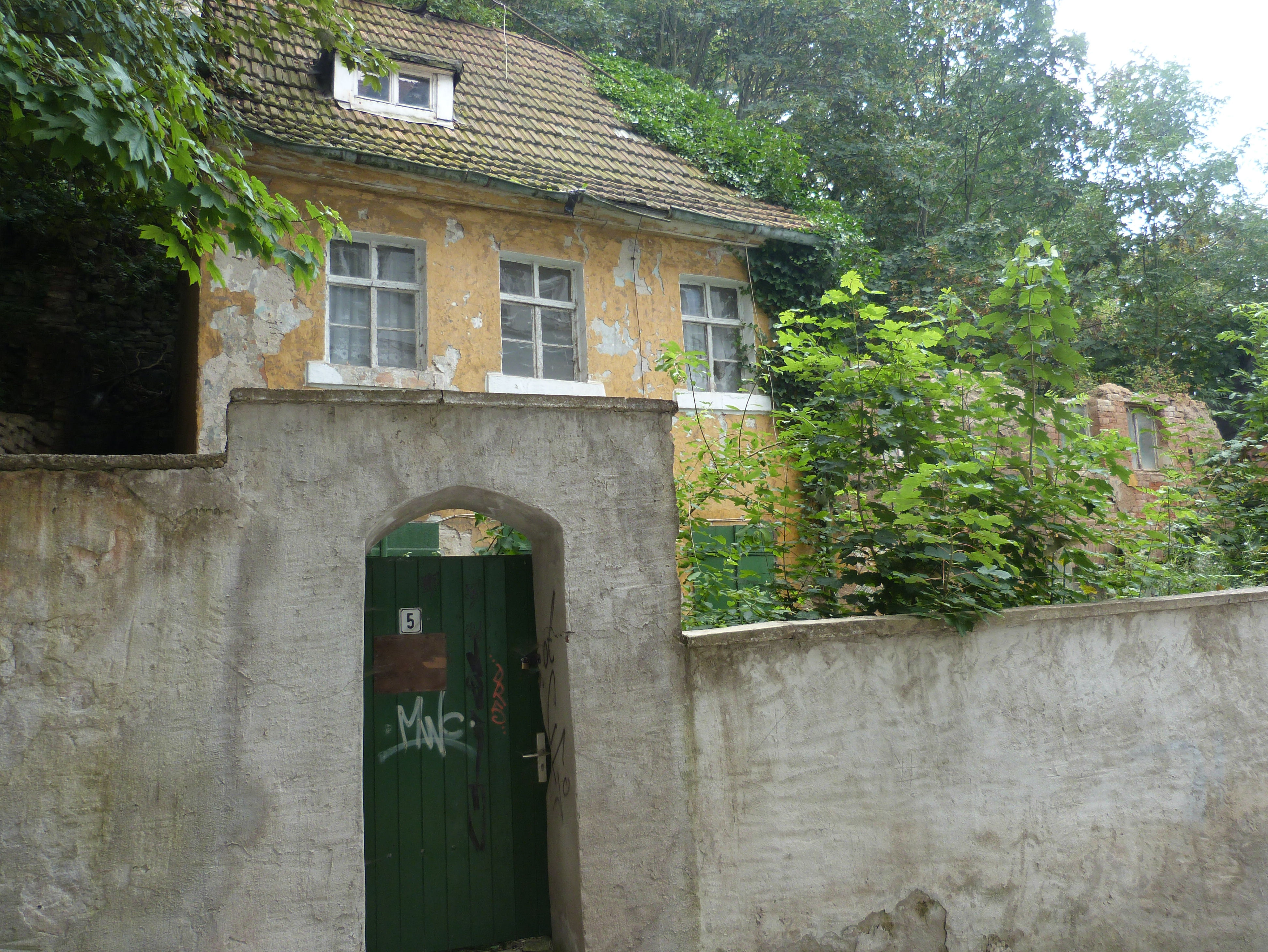 House No. 5 Schlossgasse, Weissenfels, Saxony-Anhalt